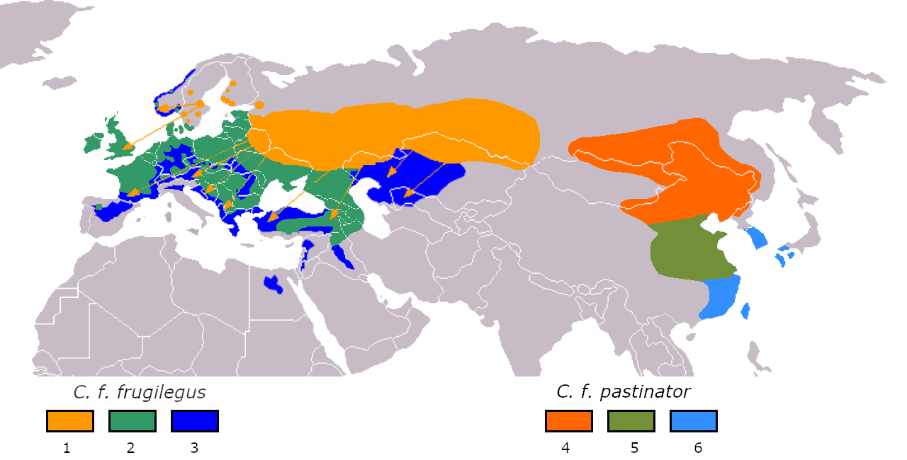 distribution of Corvus frugilegus frugilegus and C. frugilegus pastinator author is ulrich prokop (Scops)